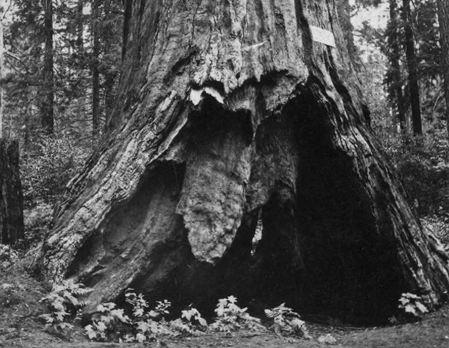 The Pioneer's Cabin, Big Tree Grove, Calaveras County